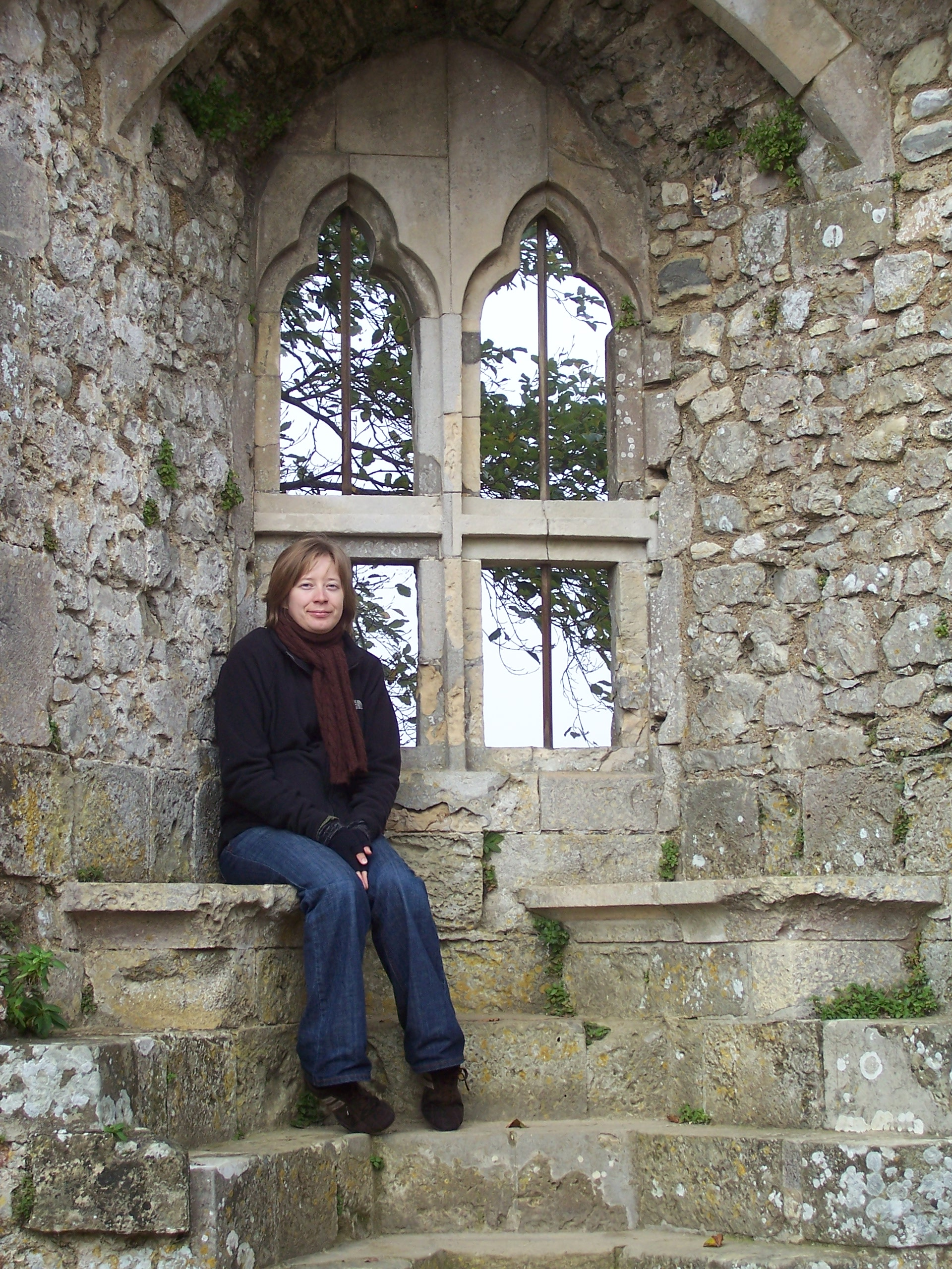 turista en el castillo